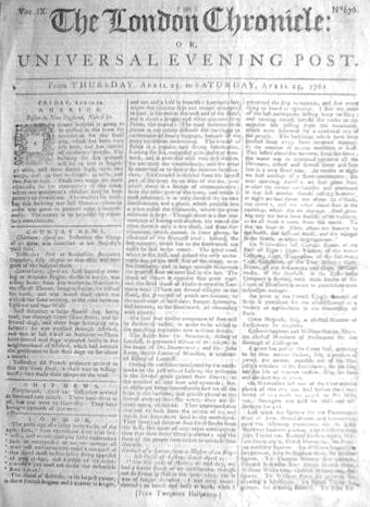 London Chronicle newspaper, England, April 25, 1761